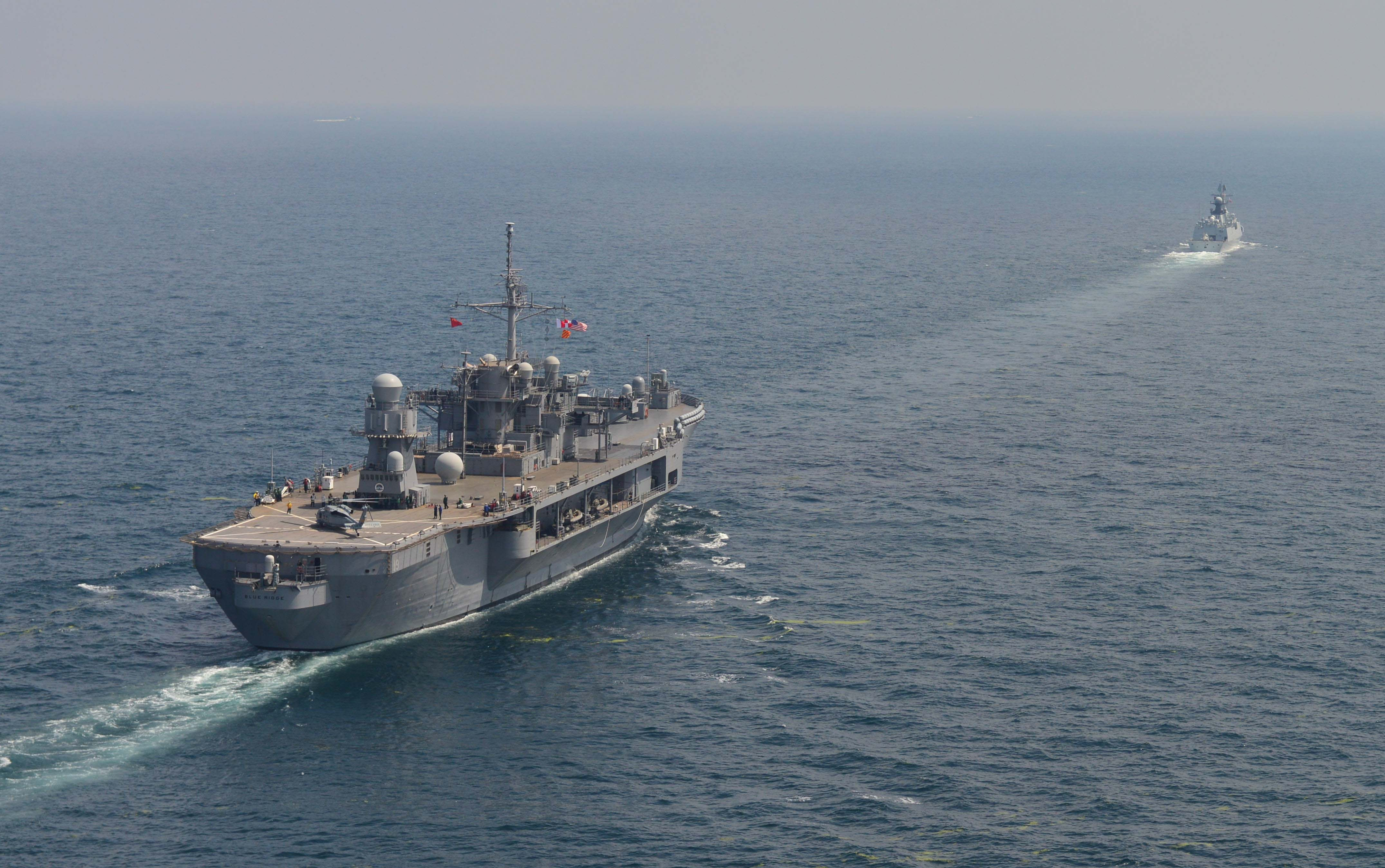 The U.S. 7th Fleet flagship USS Blue Ridge (LCC 19), left, and the China's People's Liberation Army Navy (PLA(N)) guided-missile frigate CNS Yancheng (FFG 546) participate in a search-and-rescue exercise off the coast of China.